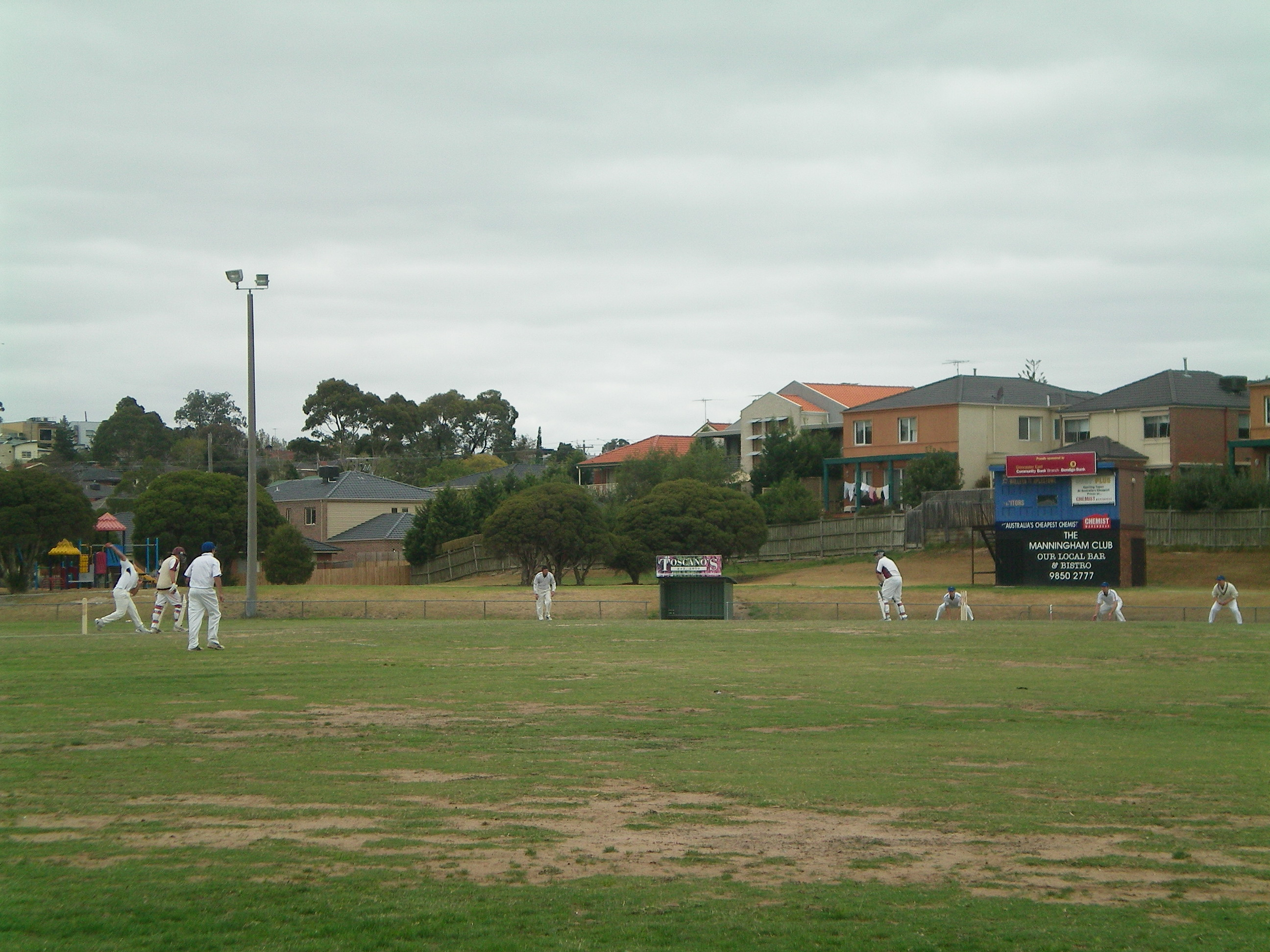 The pitch at Ted Ajani Reserve, home ground of the Bulleen Templestowe Cricket Club. This was the semi-final match between Bulleen Templestowe and East Box Hill. Reference: Vernuccio, Chris (2009-03-11). "Shield race is far from finished". Manningham Leader: p. 28